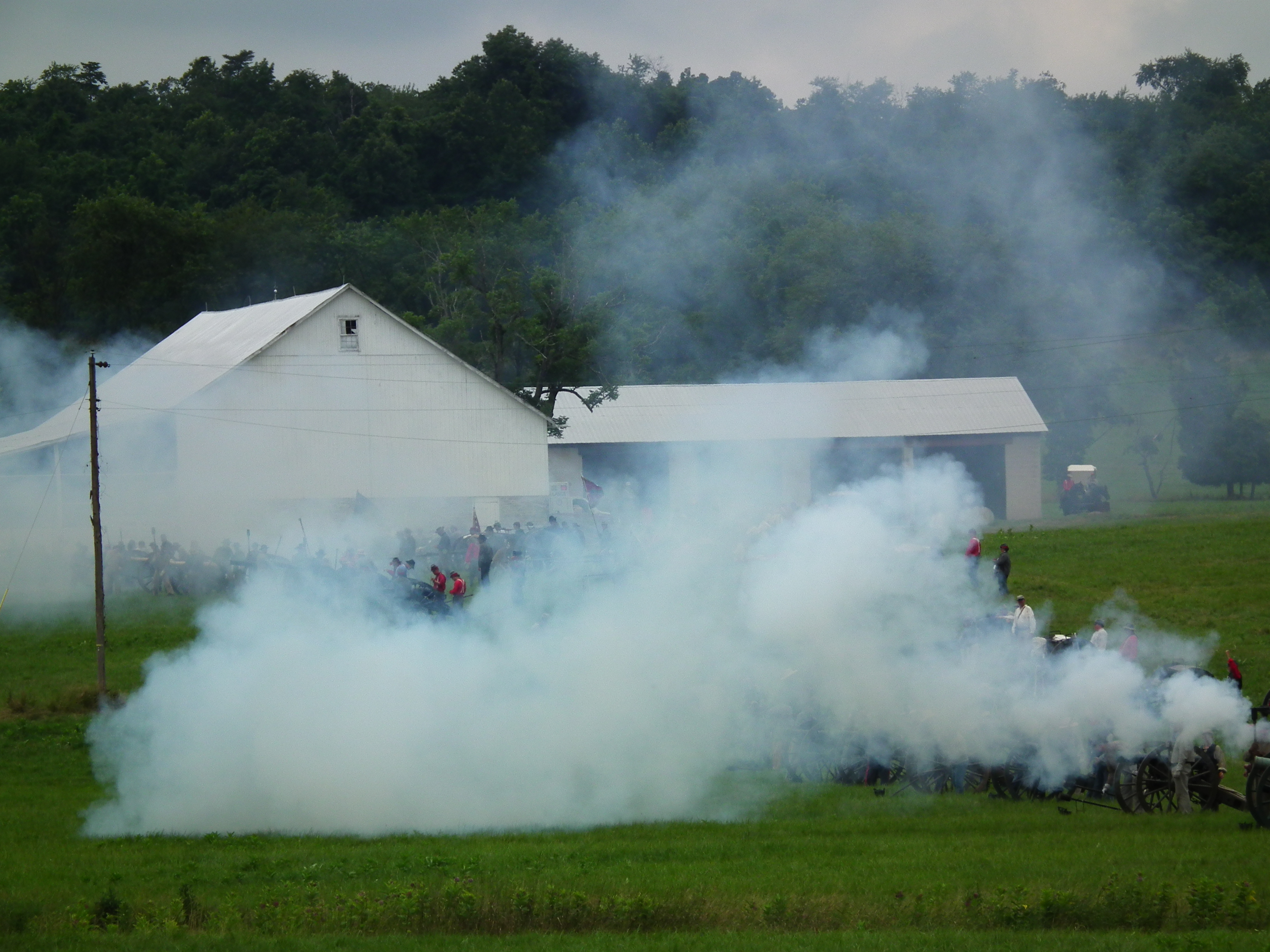 the 150TH Gettysburg Anniversary National Civil War Battle Reenactment, the single largest and one of the most pivotal military engagements ever fought on American soil.